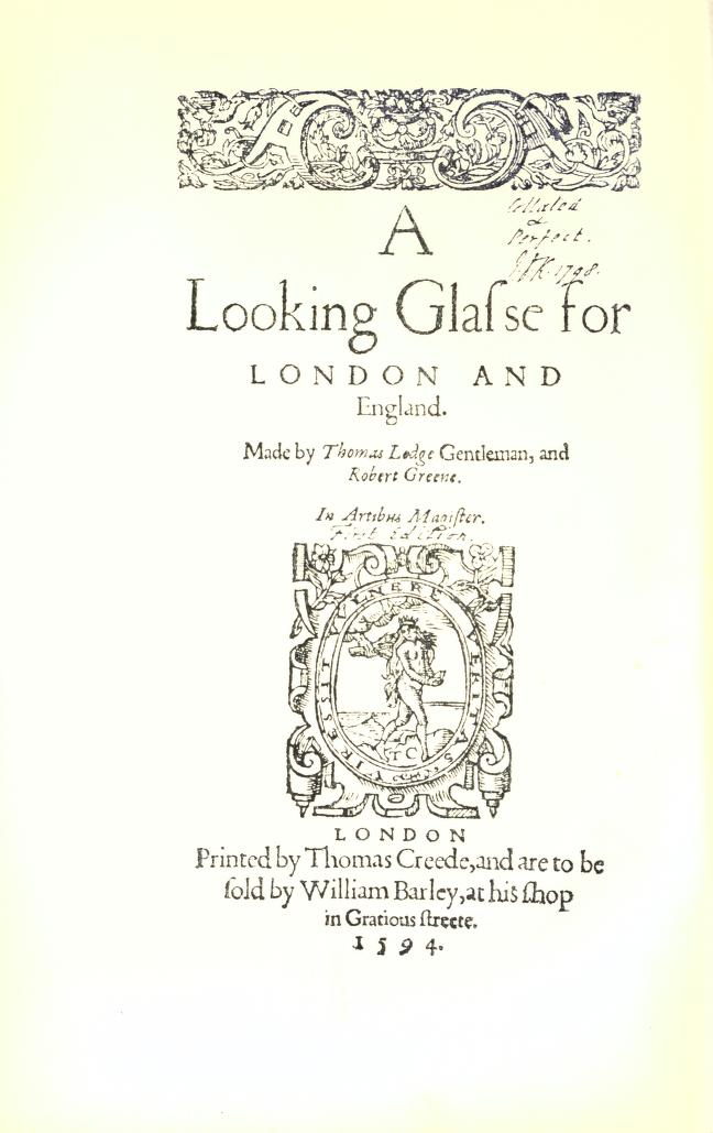 Title page of "Looking Glass" by Thomas Lodge and Robert Greene, 1594